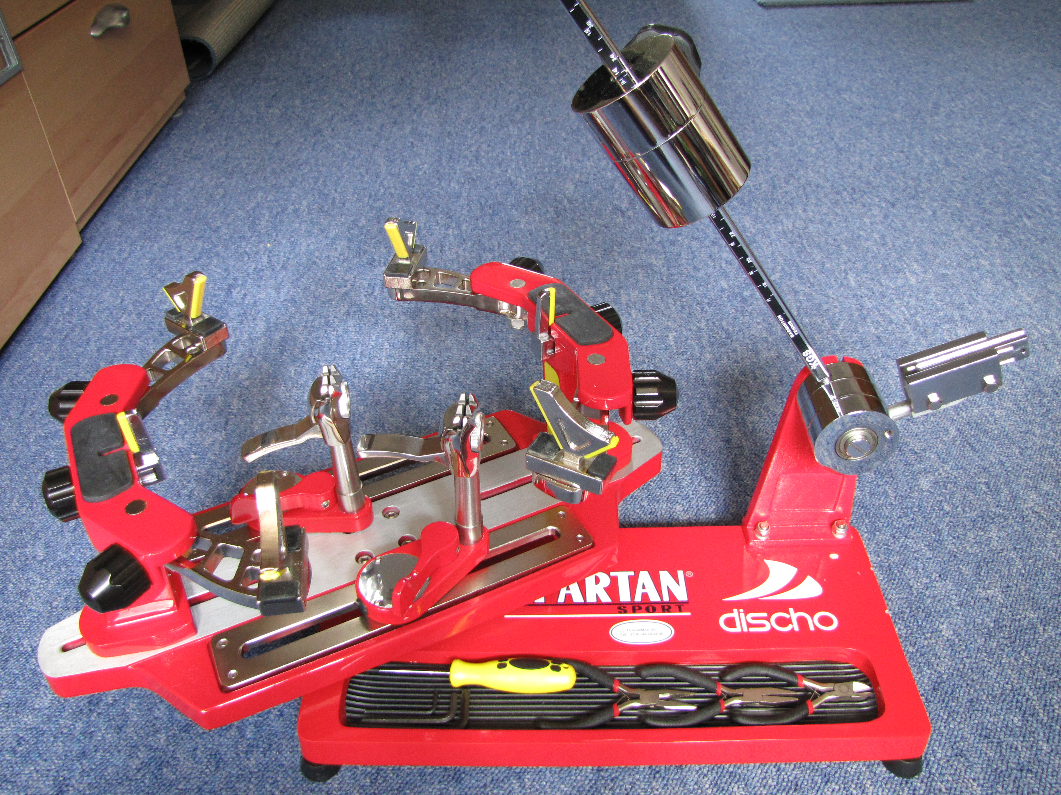 Drop weight stringing machine, model DISCHO-Veritas OR - red.